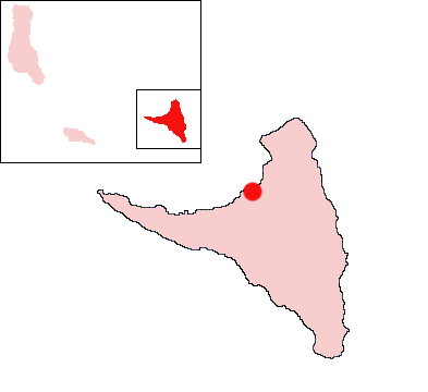 Mirontsi, Anjouan, Comoros Location Map; created with the GIMP. Made by User:Acntx.